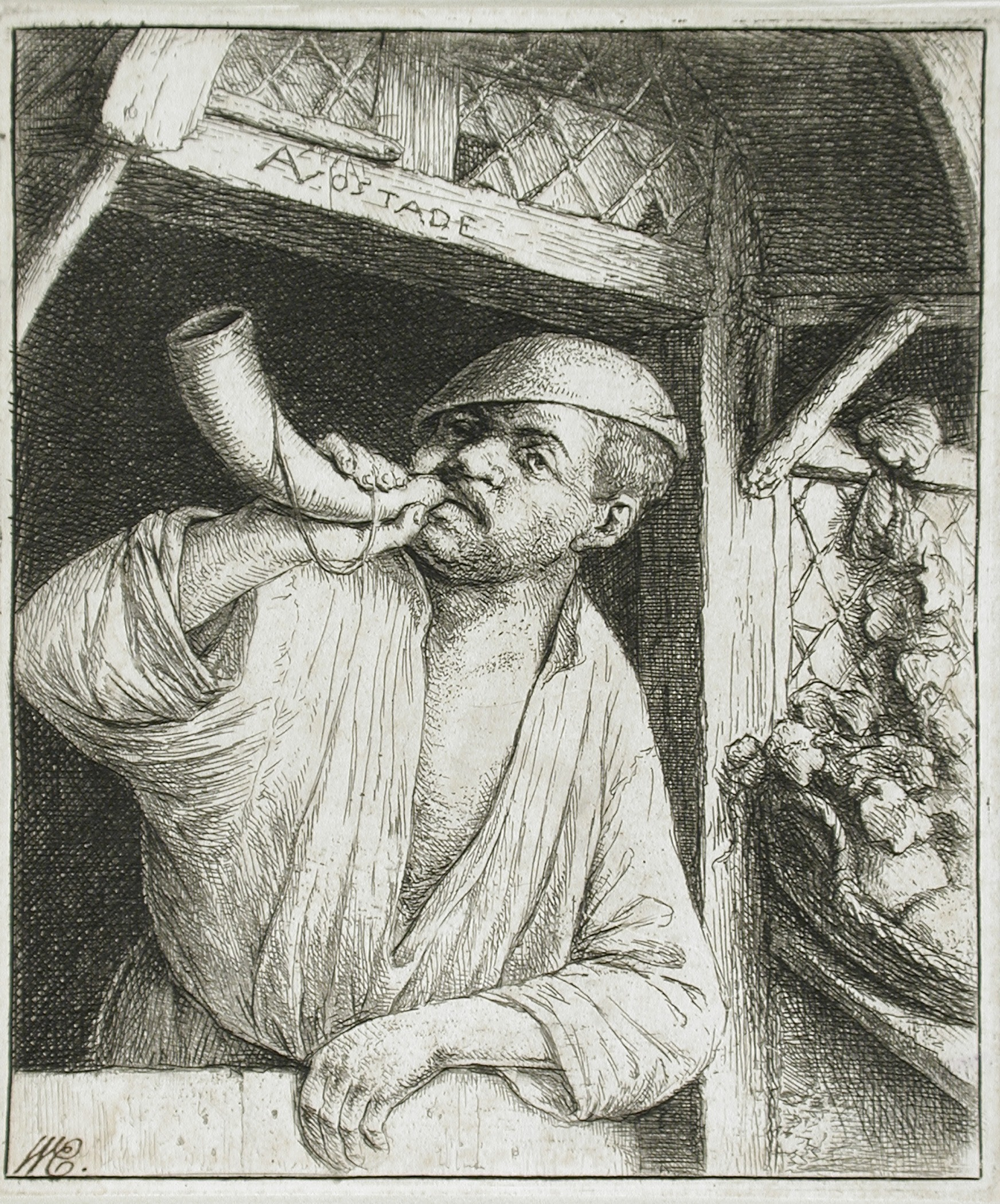 Holland, 1664 (?) Alternate Title: Le Boulanger sonnant du cornet Prints; etchings Etching Gift of Mr. and Mrs. Robert G. Engel (M.67.88.2) Prints and Drawings